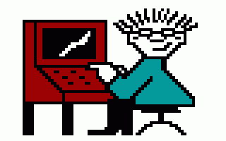 Typical BSAVED Text Screen using Graphics Characters.